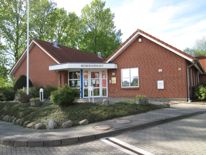 Danish cultural center (Medborgerhuset) in Eckernförde / Egernførde